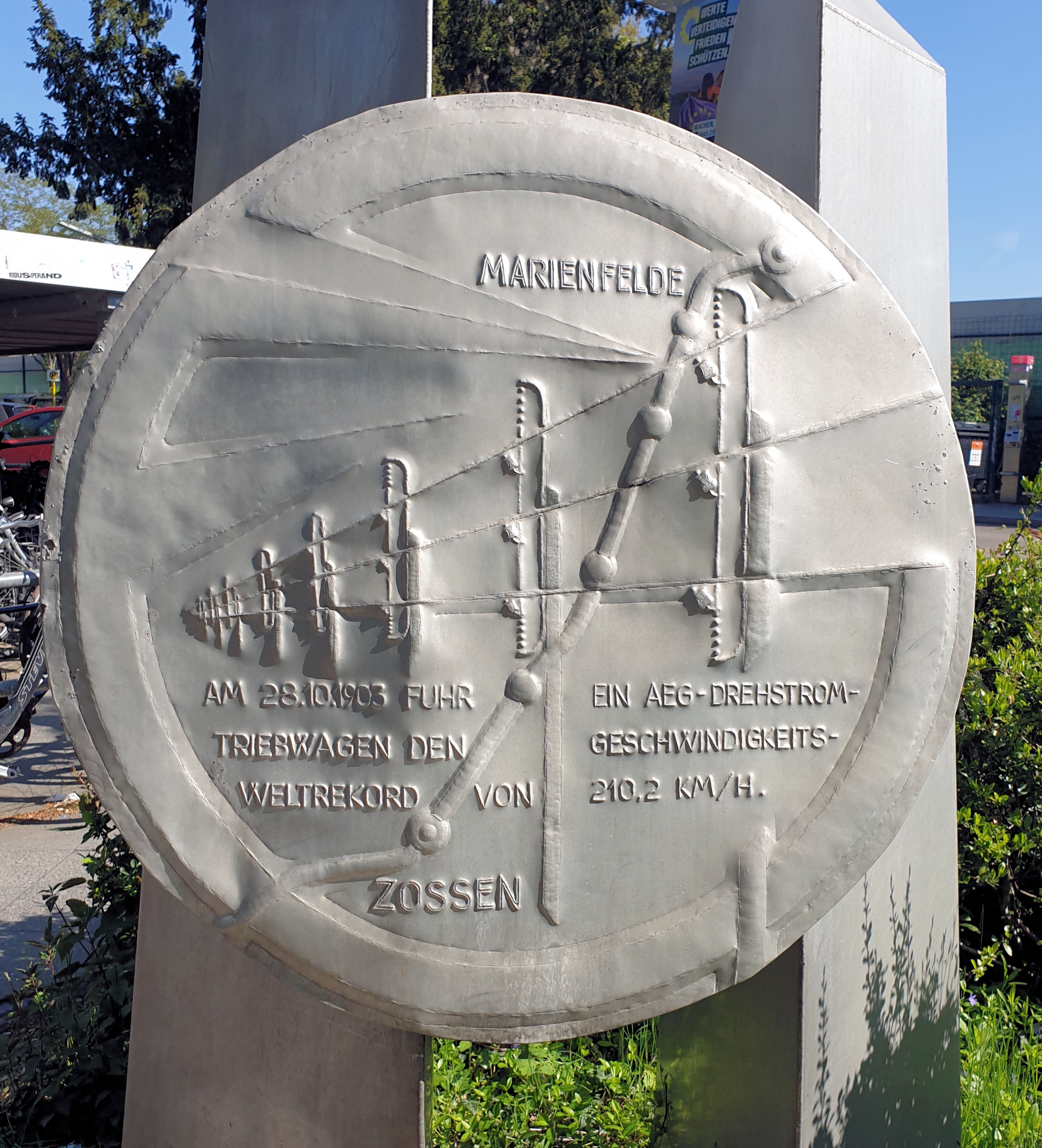 Memorial plaque, Eisenbahn Geschwindigkeits Weltrekord, Bahnstraße 6, Berlin-Marienfelde, Germany Koordinate:52°25′25″N 13°22′28″E / 52.42361°N 13.37444°E